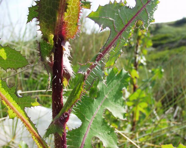 (en) Lactuca virosa, a photography originating of the internet site The accord of the autor, H. Brisse, is here. (fr) Lactuca virosa, une photographie issue du site internet L'accord de l'auteur, H. Brisse, se situe ici.